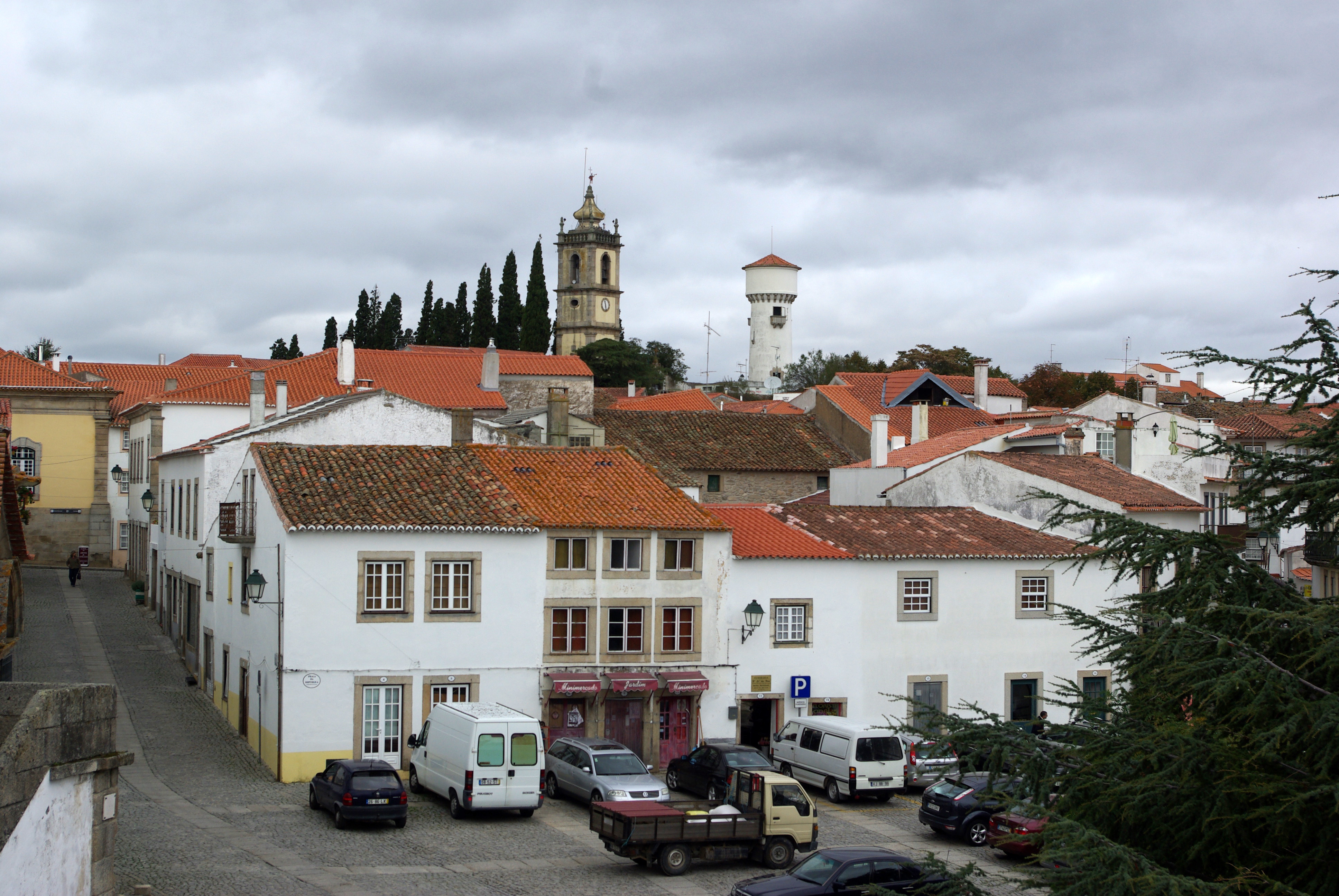 Almeida from the door of Saint Francis (Guarda, Portugal).